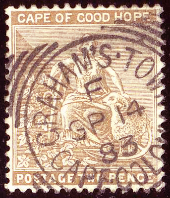 2 pence Cape of Good Hope issue 1882, pale bistre, squared-circle cancel at GRAHAMS-TOWN. SG N°42.